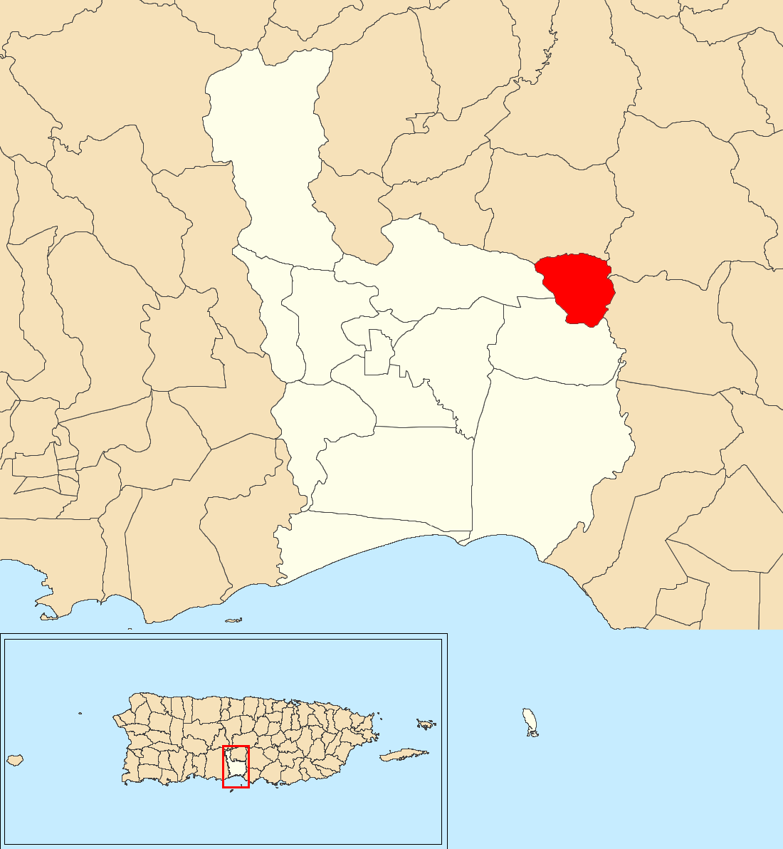 Emajagual, Juana Díaz, Puerto Rico locator map